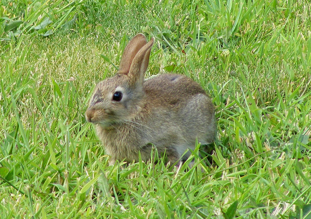 A Wild Rabbit at Lossiemouth Rabbits are a pest to some people, but I was pleased to see this baby rabbit in my garden almost every day. Especially because he ate my grass and left the cabbage and lettuce for me.